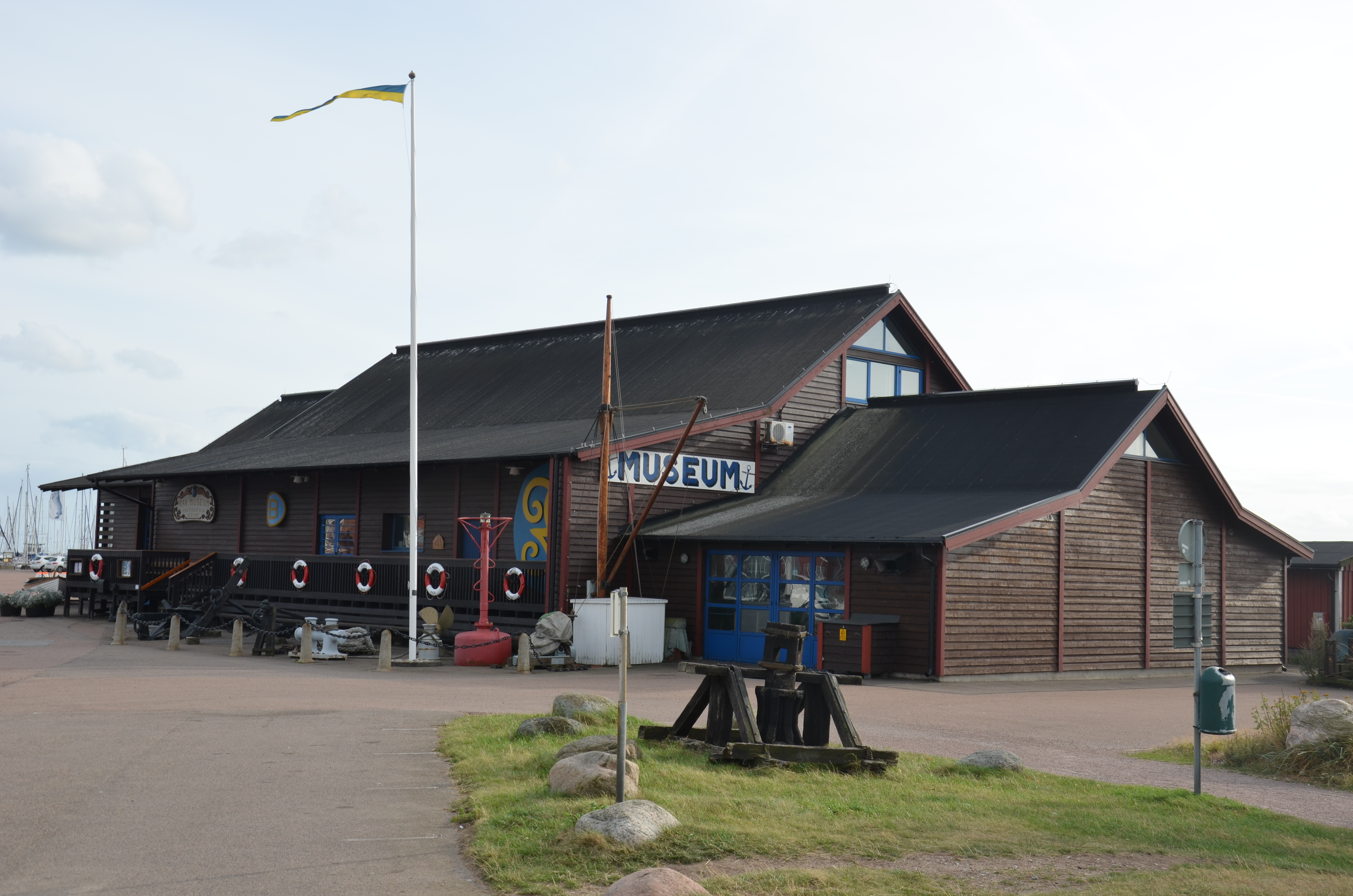 Råå museum för fiske och sjöfart